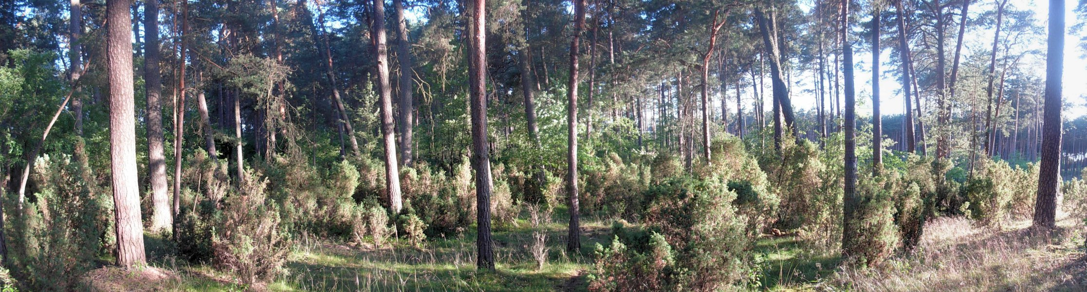 Nature reserve Łążyn